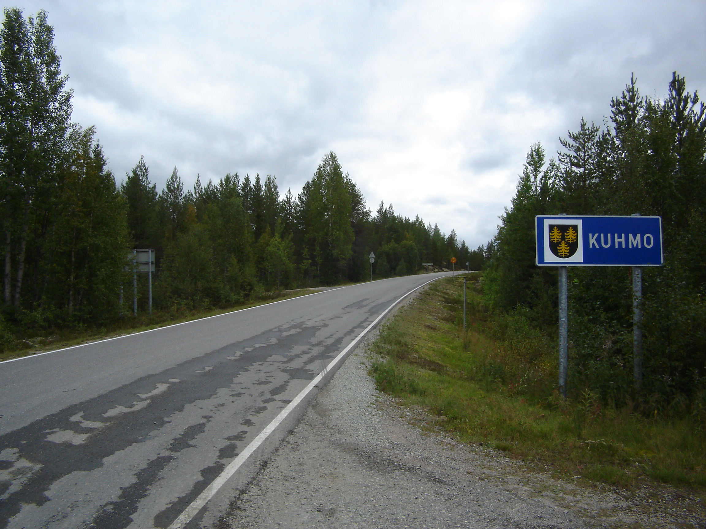 Road sign on the regional road 912 at the border of Suomussalmi and Kuhmo municipalities in Finland